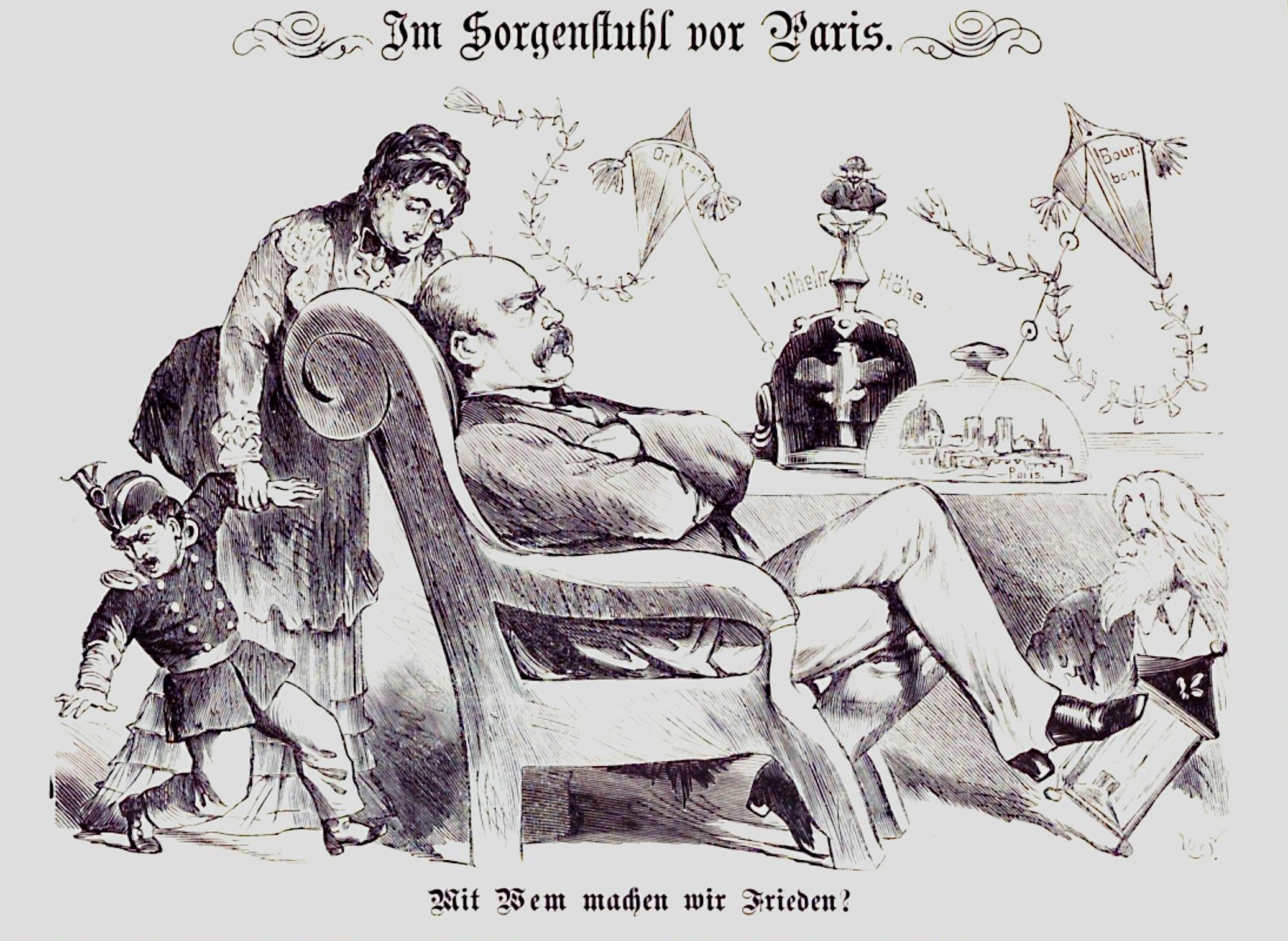 Karikatur, Kladderadatsch